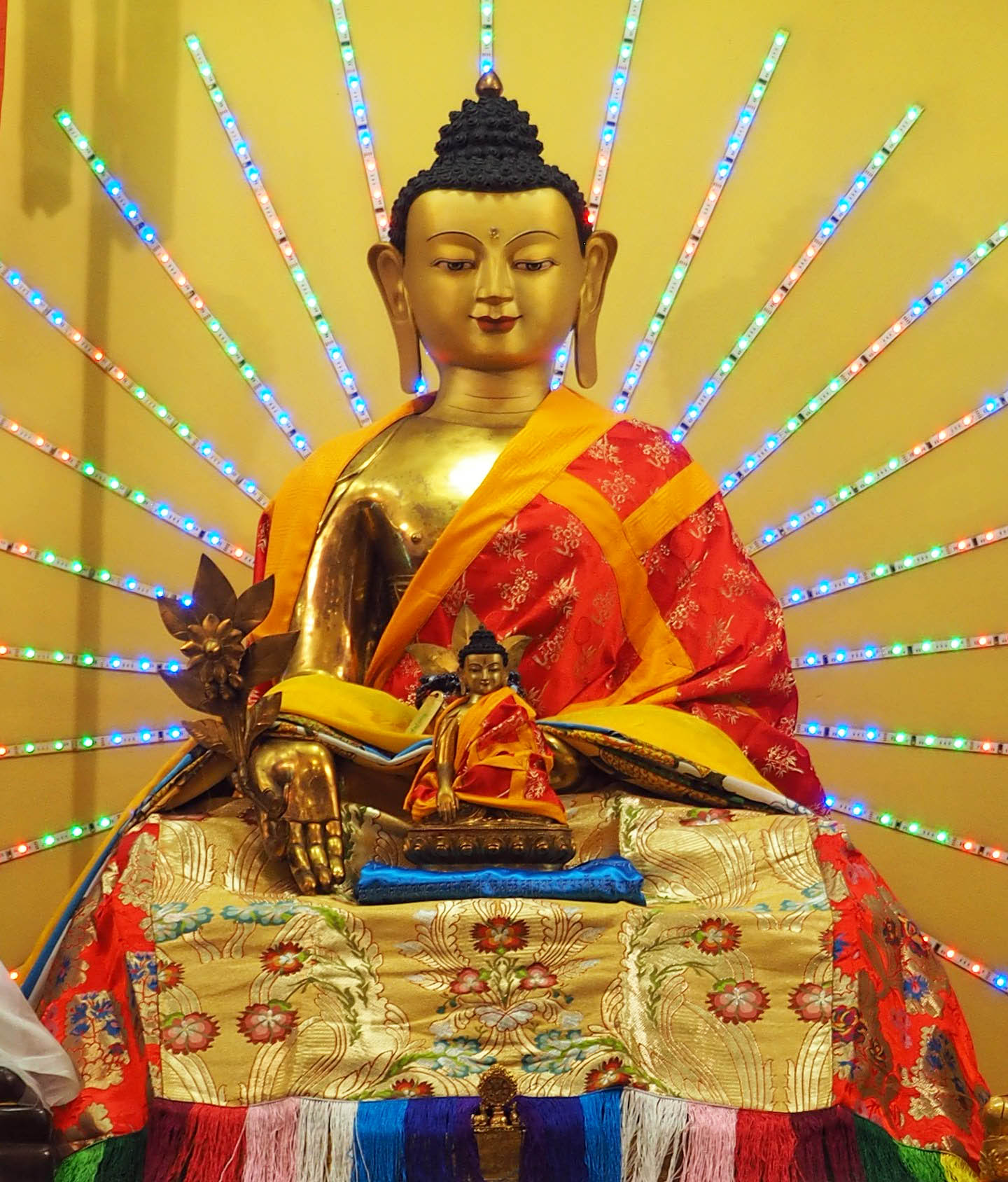 Medicine Buddha at Thekchen Choling (Singapore)